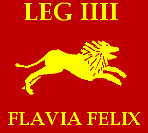 Signum of Legio IIII Flavia Felix (simplified reconstruction)